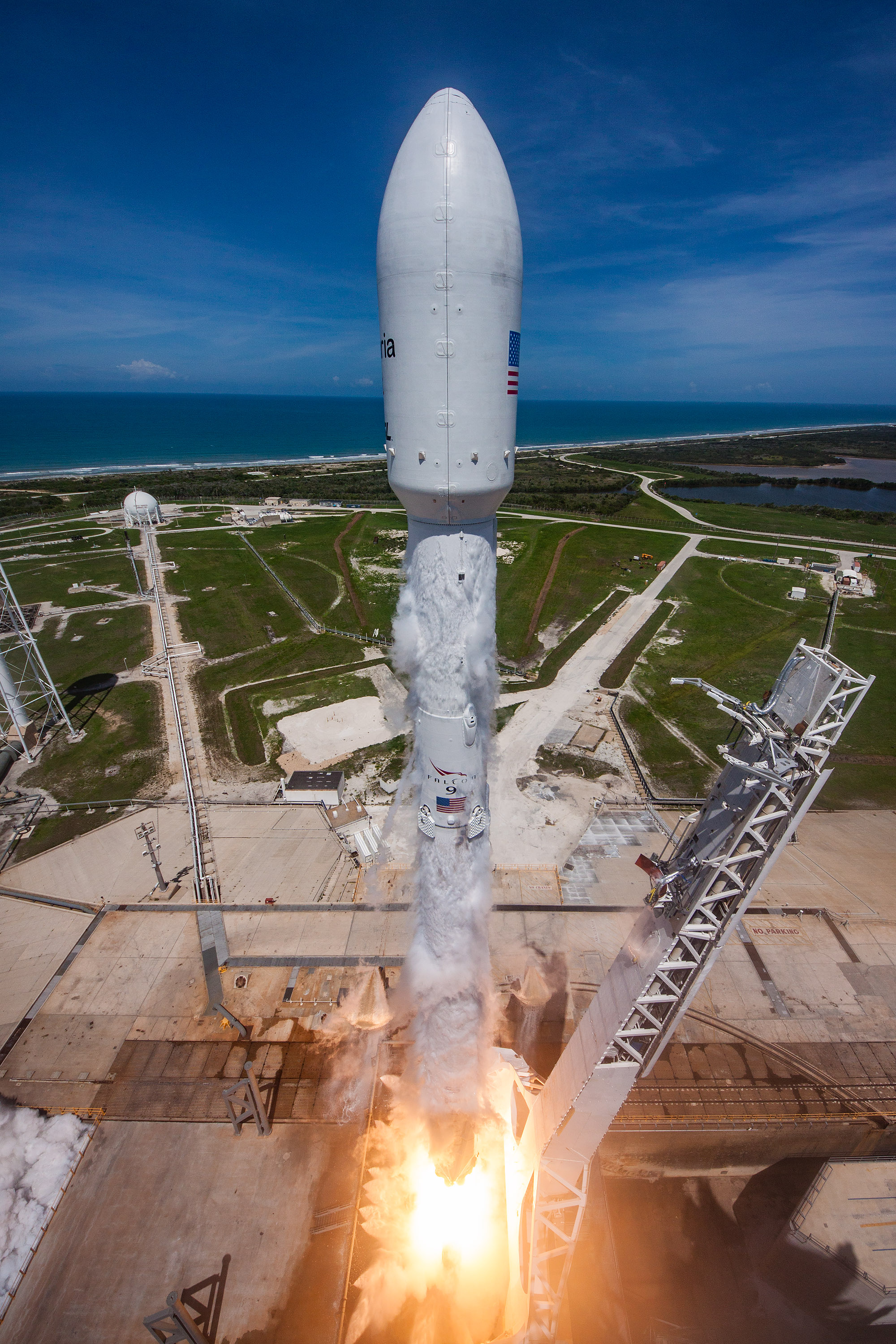 BulgariaSat-1 Mission